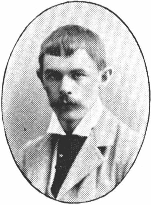 Albert Engström (1869-1940), Swedish artist, writer and publisher of "Strix" Magazine. Member of the Swedish Academy from 1922.